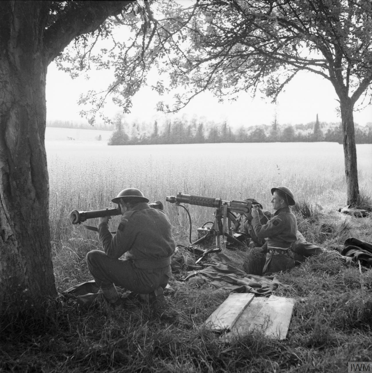 The British Army in Normandy 1944 Vickers machine-gun of 'B' Company, 2nd Cheshire Regiment, 50th Division, near Audrieu, 13 June 1944.